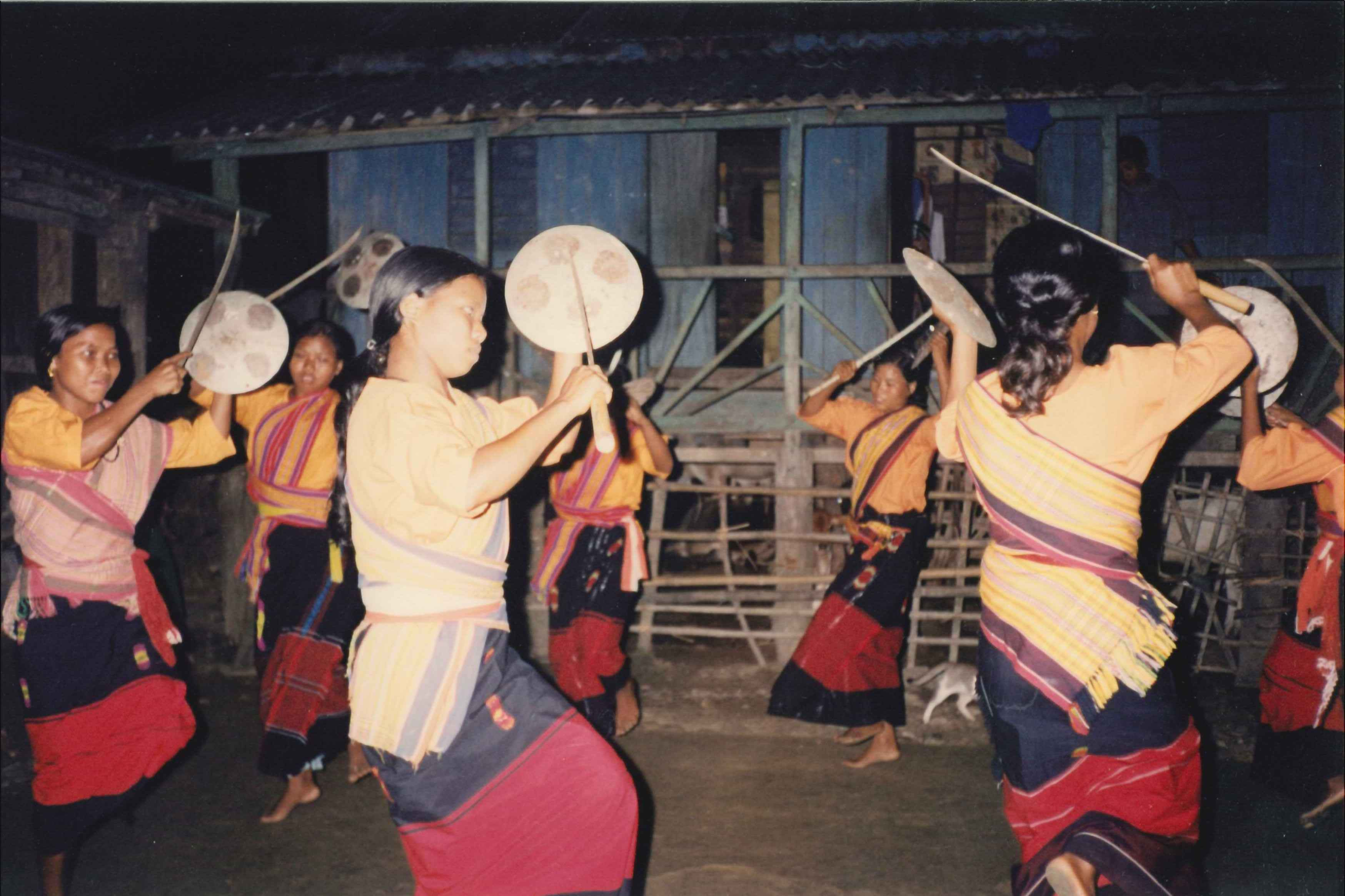 Rabha girls in traditional costumes are dancing with arms, in a dancing session in a Rabha forest village (Gosaihaat, Gayarkata) in West Bengal.